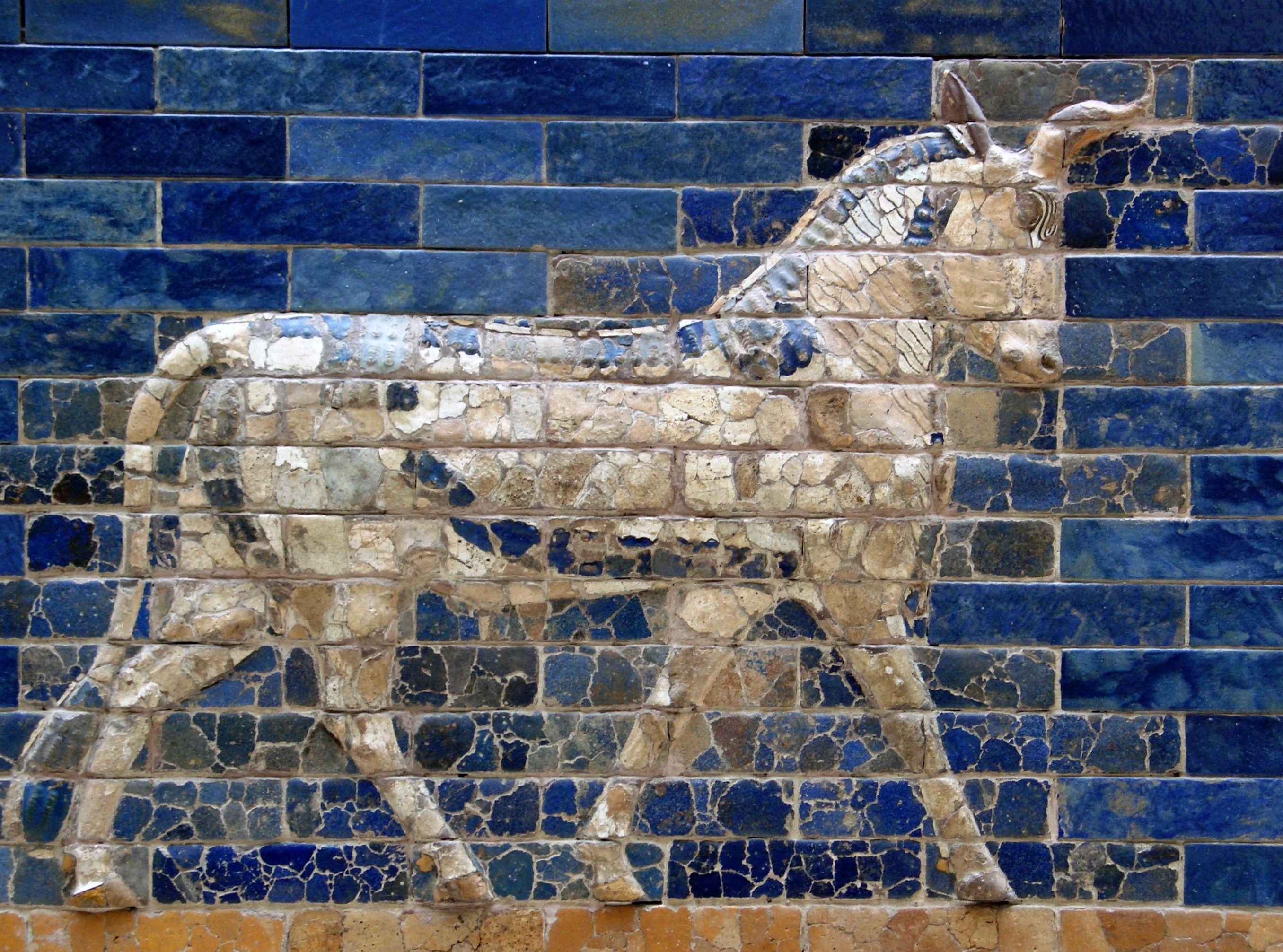 The bull (unicorn) in the bas-relief on the Ishtar Gate at the Pergamon Museum in Berlin.